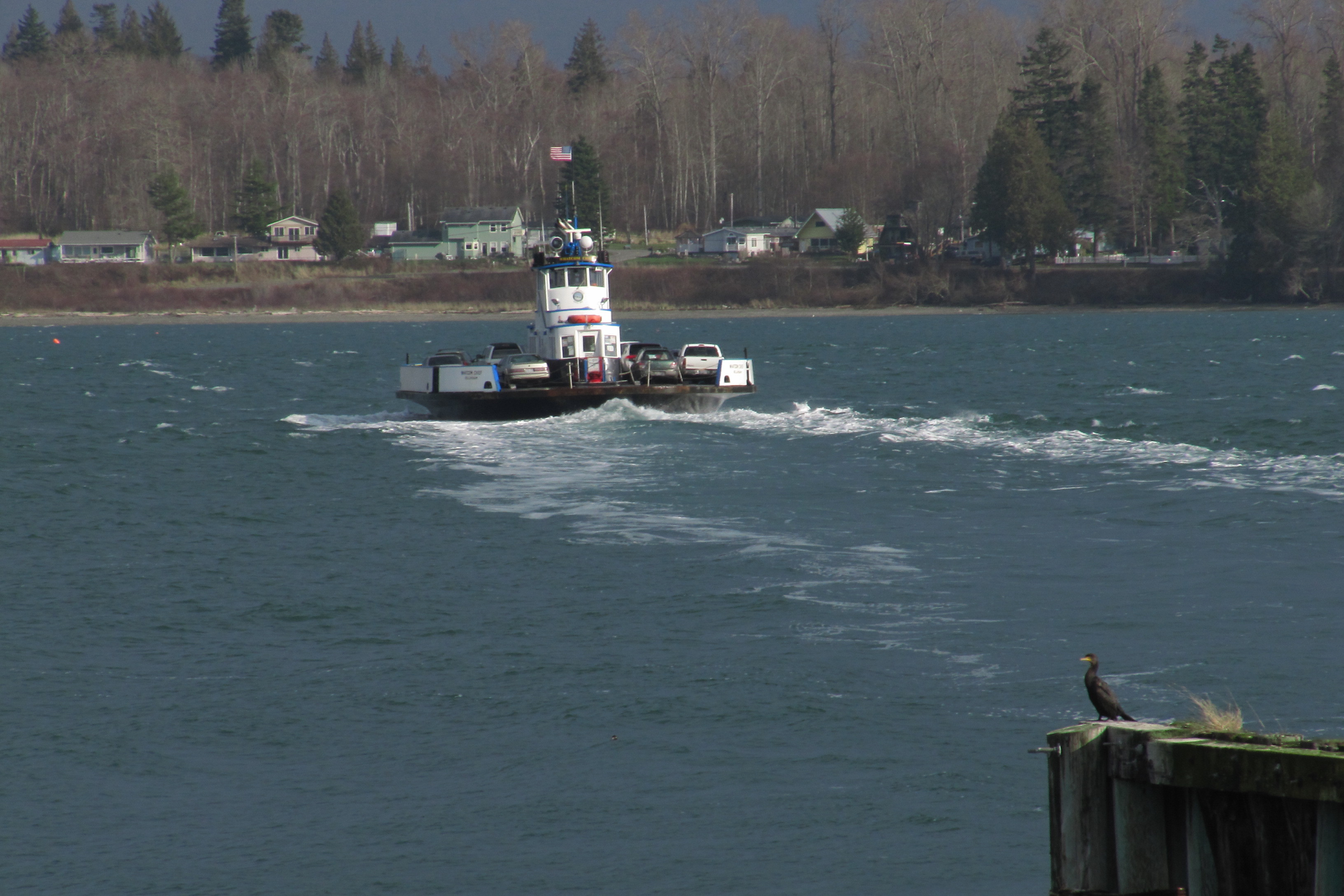 The "Whatcom Chief" ferry leaving Lummi Island and returning to Gooseberry Point on the mainland near Bellingham, Wash.